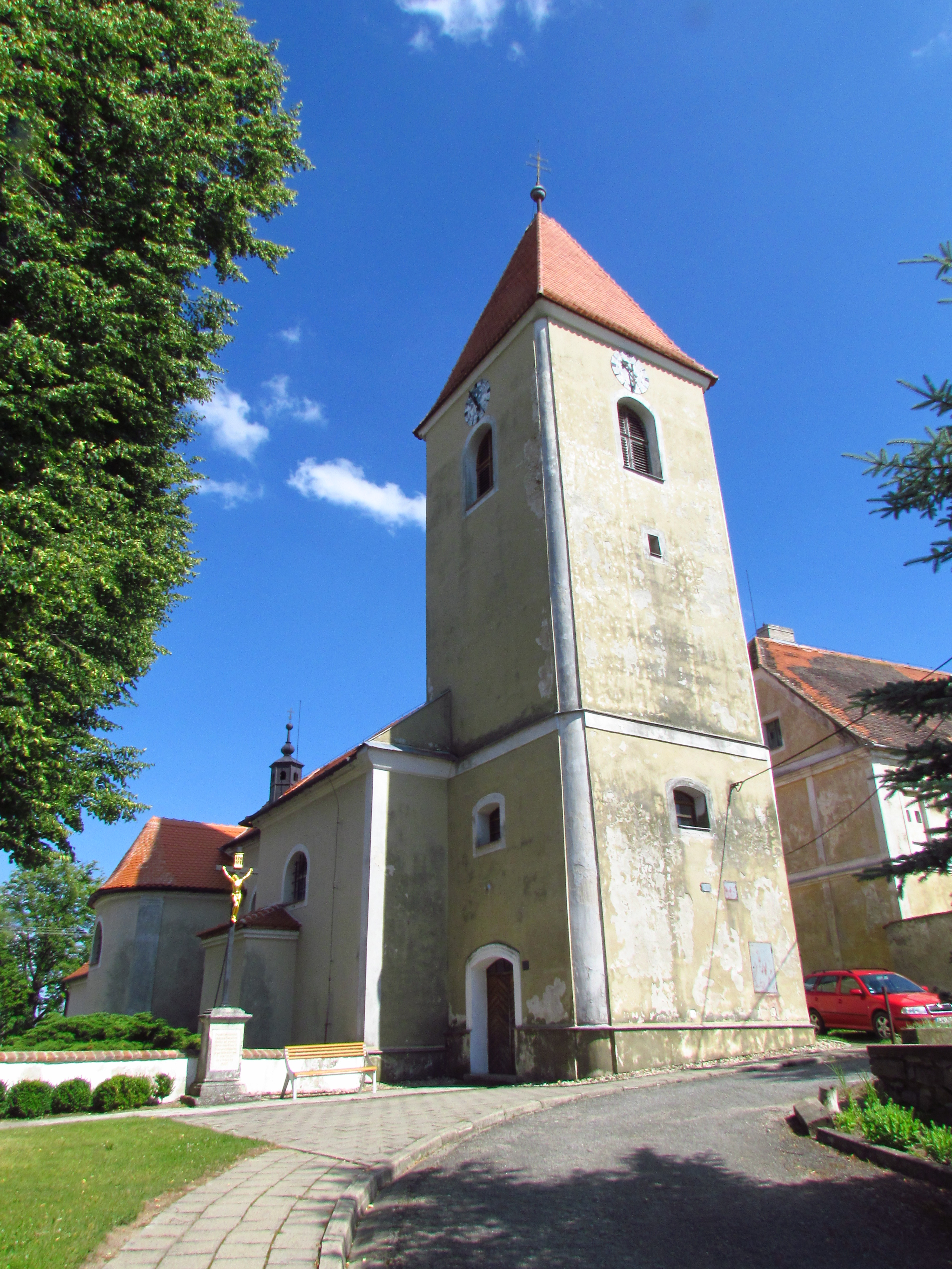 Overview of Church of James the Greater in Krhov, Třebíč District.